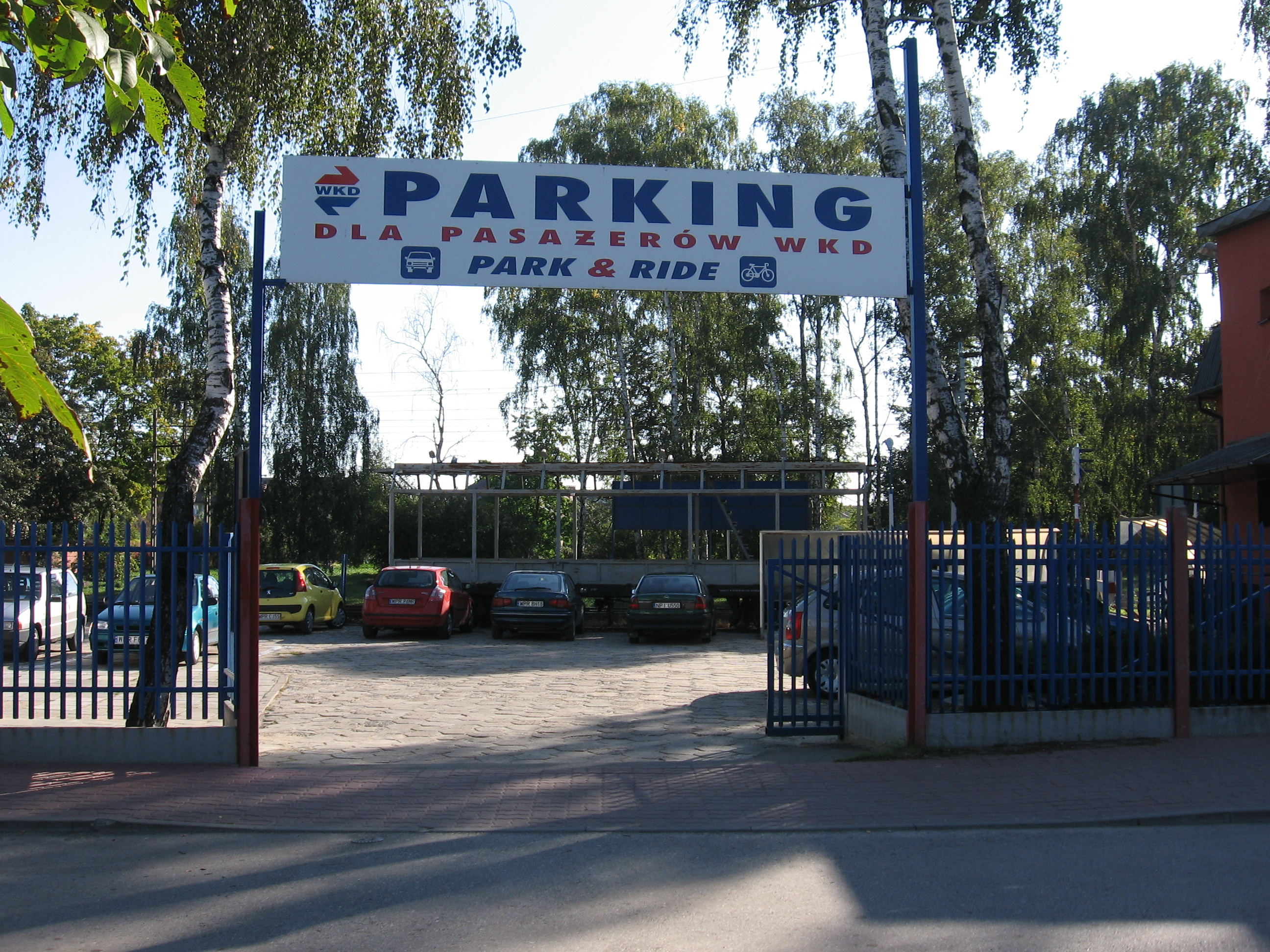 Parking lot at Komorow commuter train station